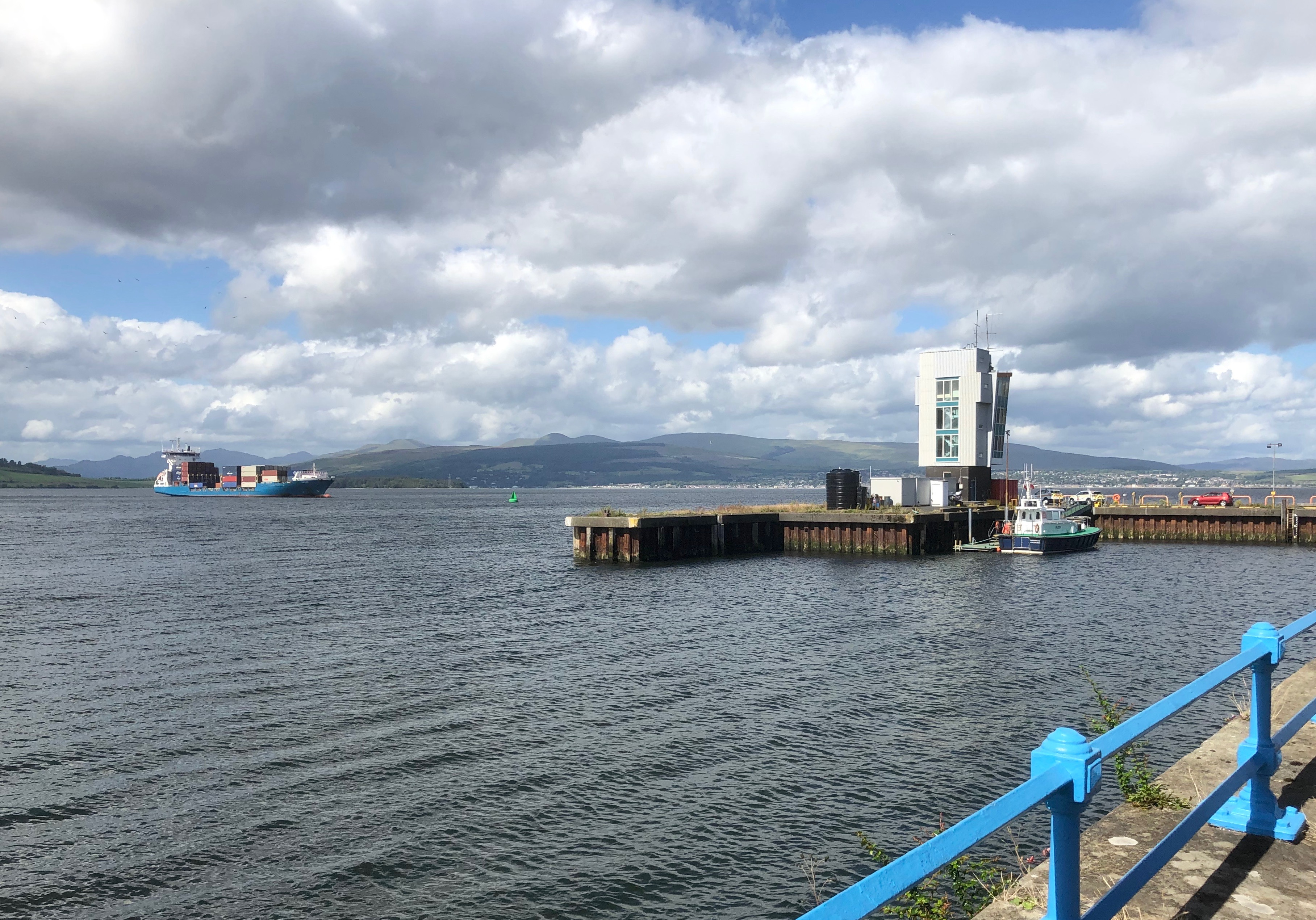 Container ship Helga on the Firth of Clyde, passing the Tail of the Bank and nearing No. 1 green conical light buoy marking the entrance to the River Clyde navigable channel. The Greenock Ocean Terminal control tower is on the corner of Princes Pier, with pilot boat Gantock in the harbour. View from Cambell Street, which meets the east end of Greenock Esplanade